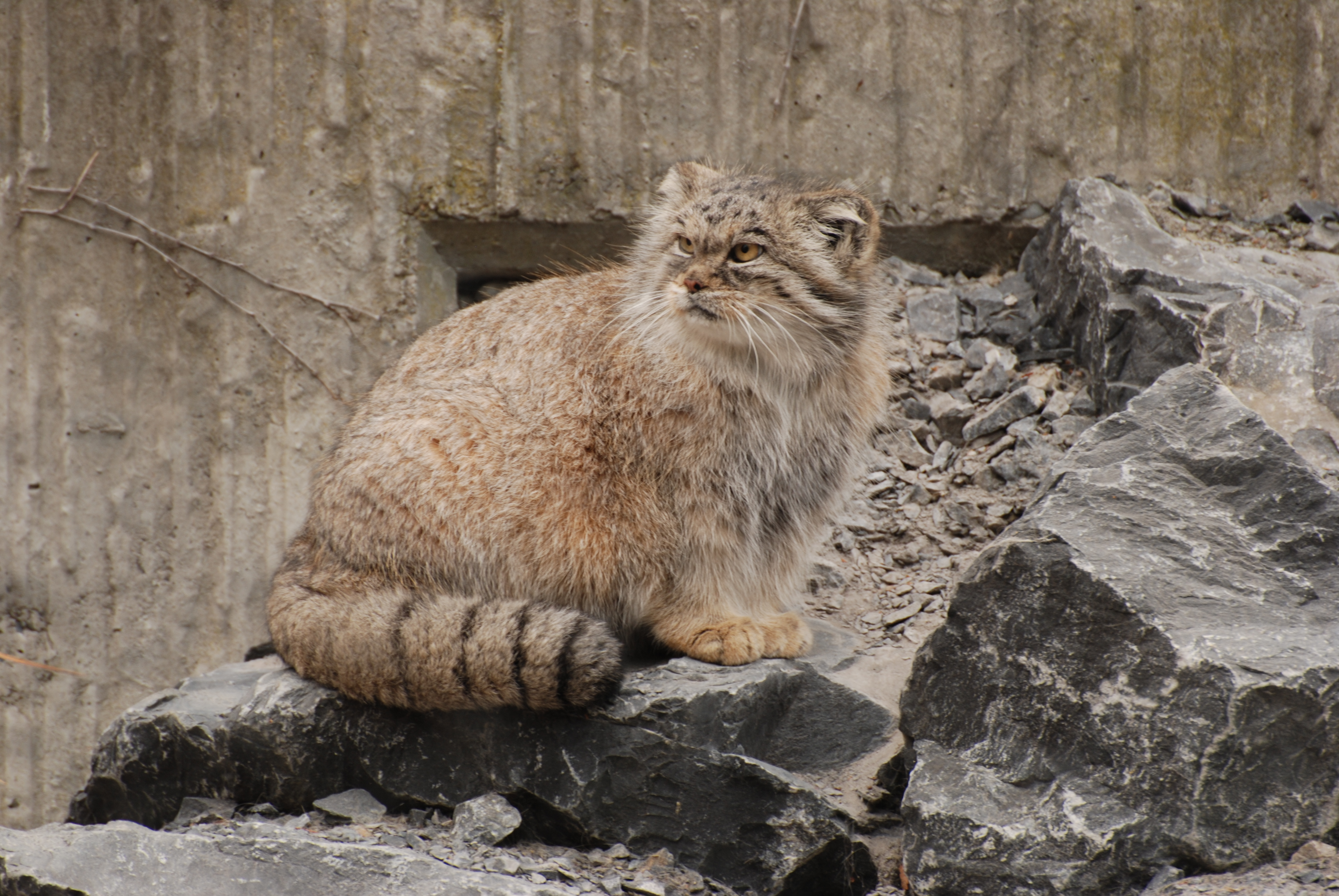 Pallas's Cat at Zoo Zürich, Switzerland, who list the subspecies Otocolobus manul manul.